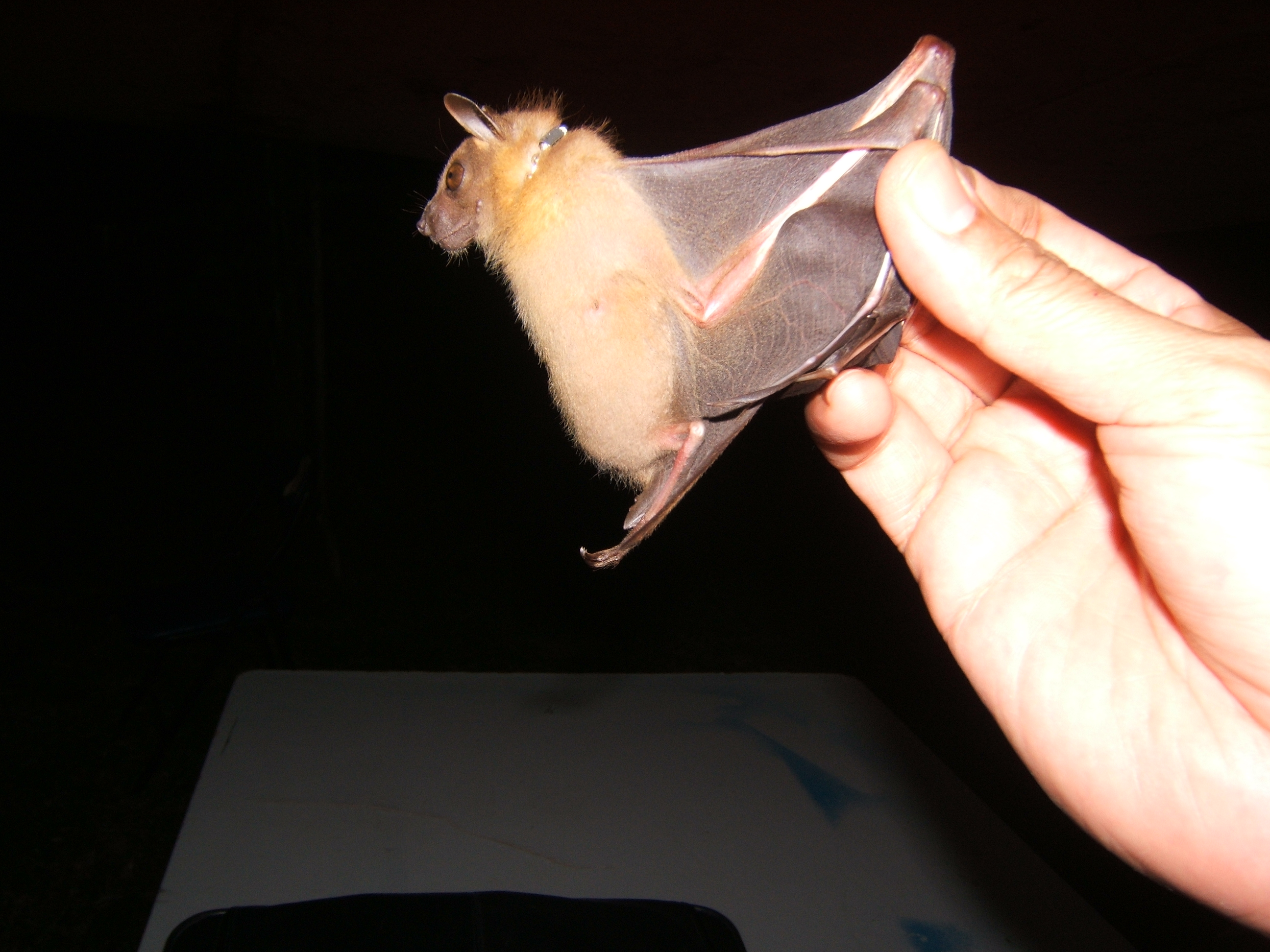 Tabdulla 12:52, 15 October 2006 (UTC)